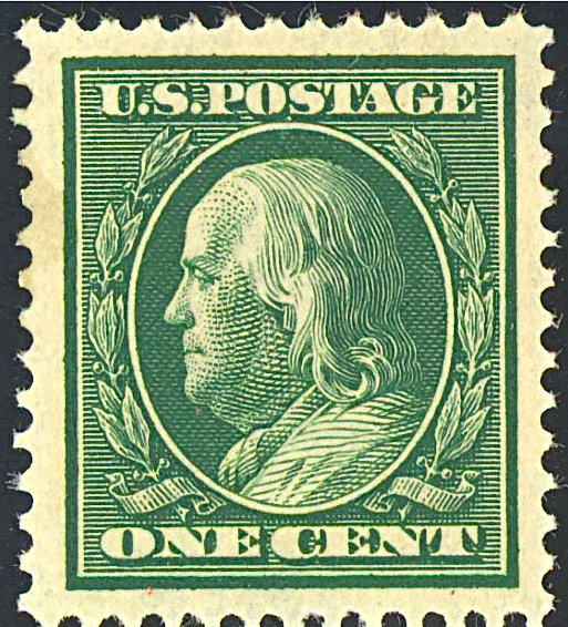 US Postage stamp: Benjamin Franklin, 1908, One Cent, green